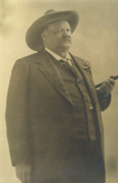 Simpson Everett "Jack" Stilwell, U.S. Army Scout, Indian fighter, Deputy U.S. Marshal, police judge, and U.S. Commissioner